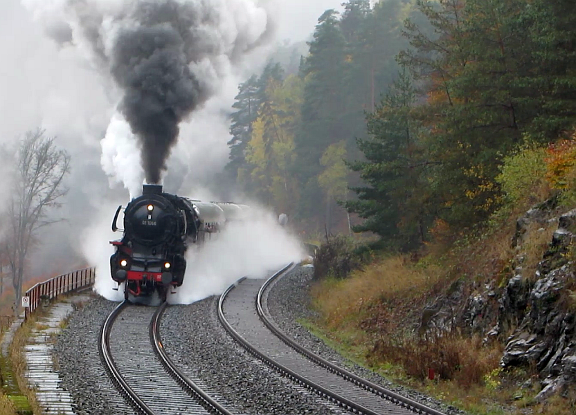 01 1066 climbing the Schiefe Ebene, 41 018 pushing